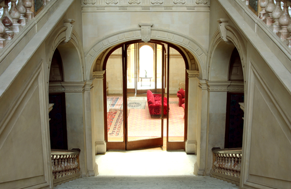 Staircase at Mentmore Towers, with a view to the Grand Hall